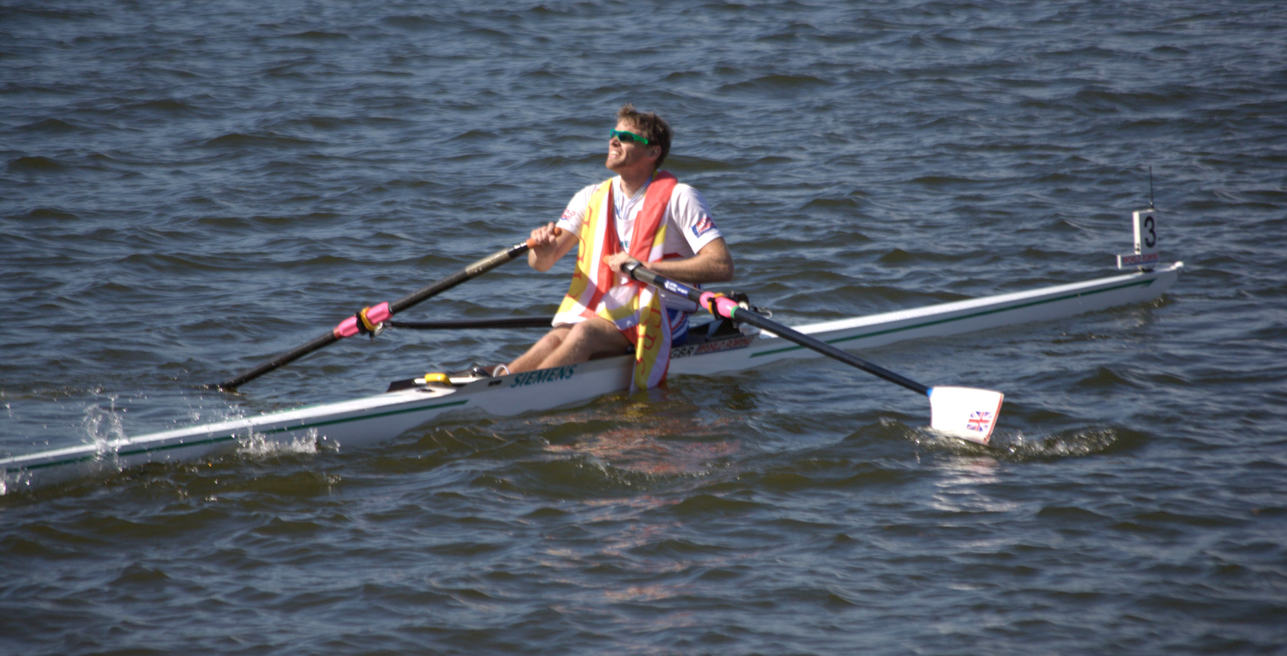 Campbell, happy with his bronze. 2010 World Rowing Championships.